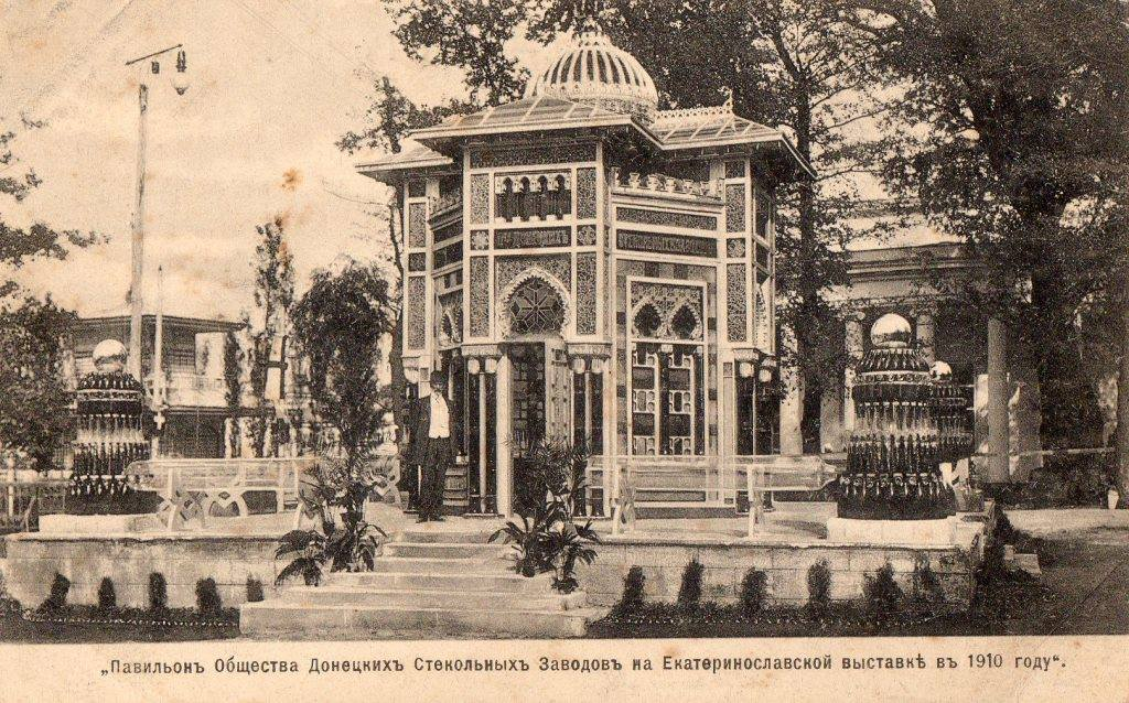 Pavilion made by Donetsk Glass Manufacture at Kostyantynivka for an exhibition at Ekaterinoslav,1910